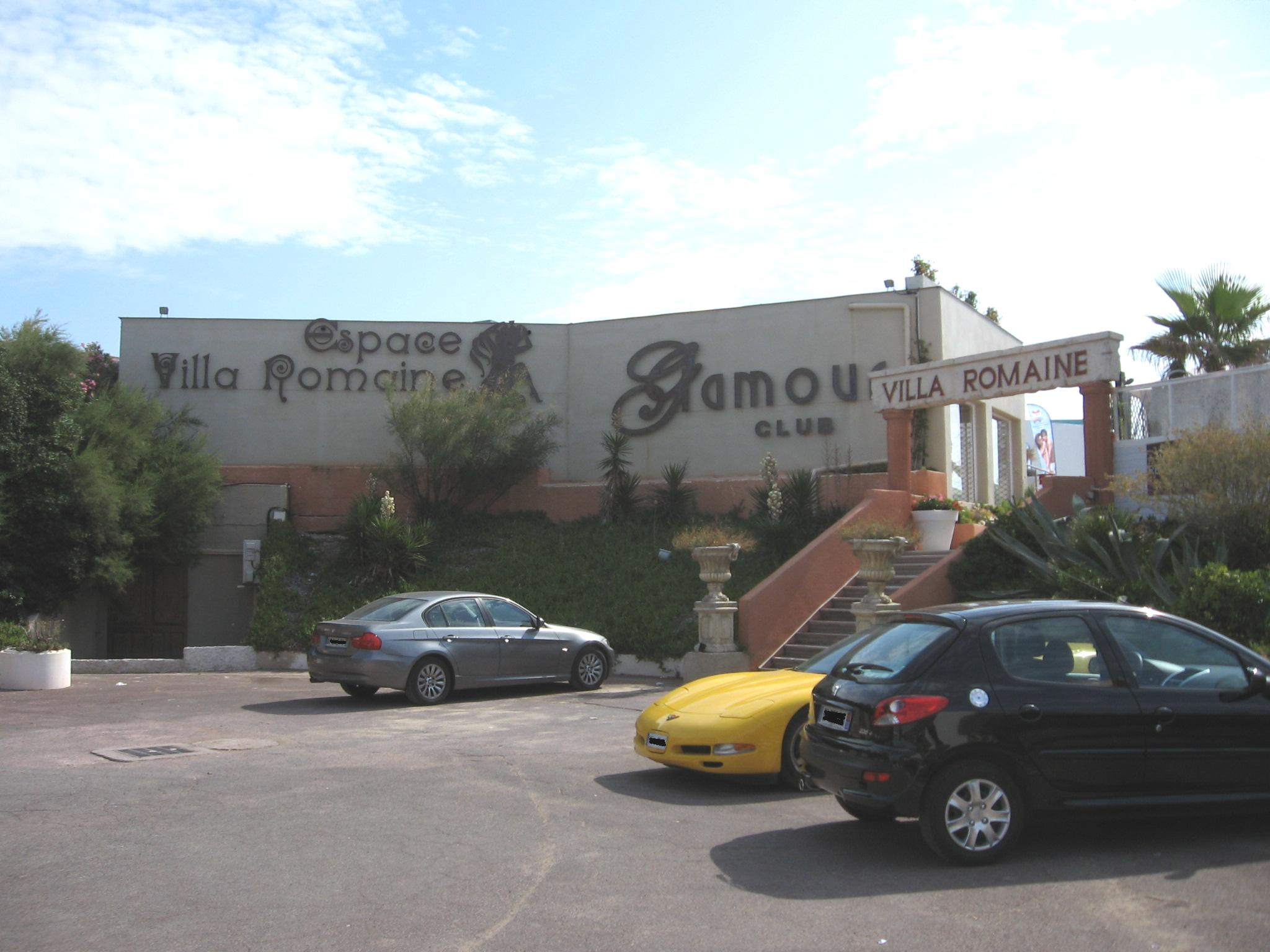 Swingerclub Glamour, Cap d'Agde, France.